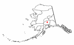 Adapted from Wikipedia's AK borough maps by Seth Ilys.